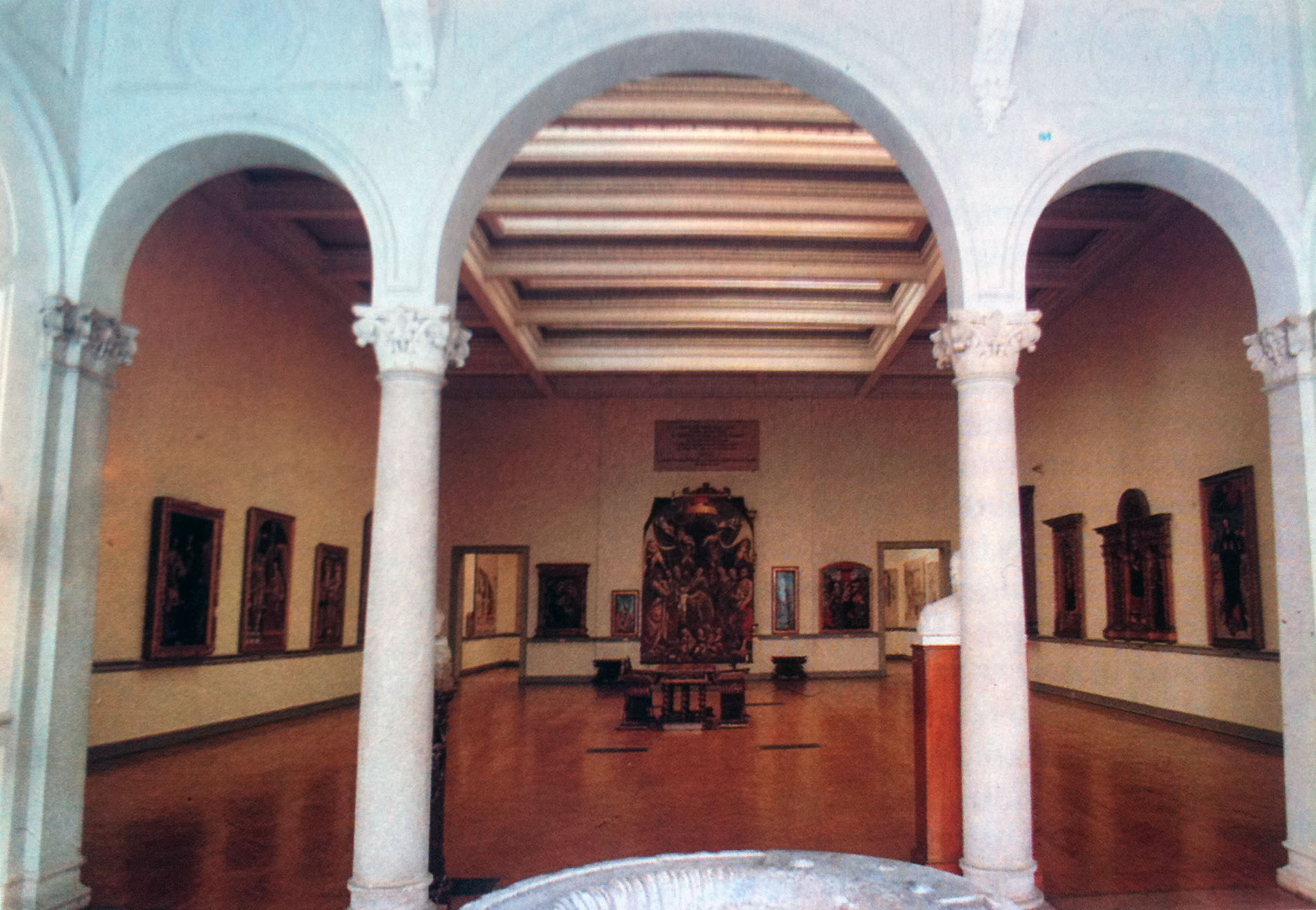 Franscesco Borgogna Museum